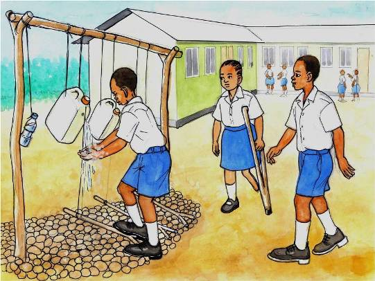 The IEC picture shows a simple tippy tap unit with drainage and soap in a school. It also includes a child with a disability as well as other children without disabilities as a true reflection of the make up of society. Picture by: Government of the United Republic of Tanzania / Rashid Mbago